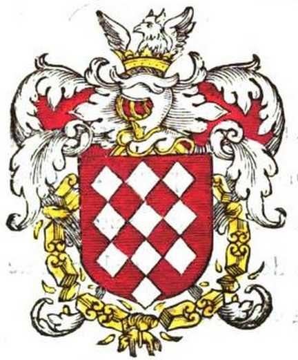 Recherche des antiquitez et noblesse de Flandres, Ponthus, Sire de Lalaing